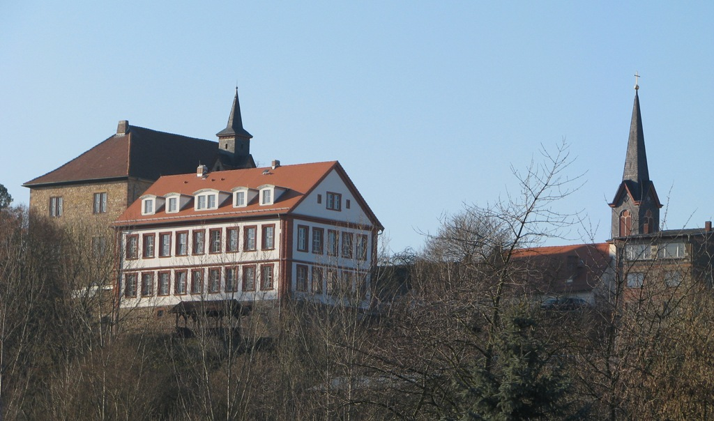 Castle Hill of Geisa, a small town in Thuringia, Germany